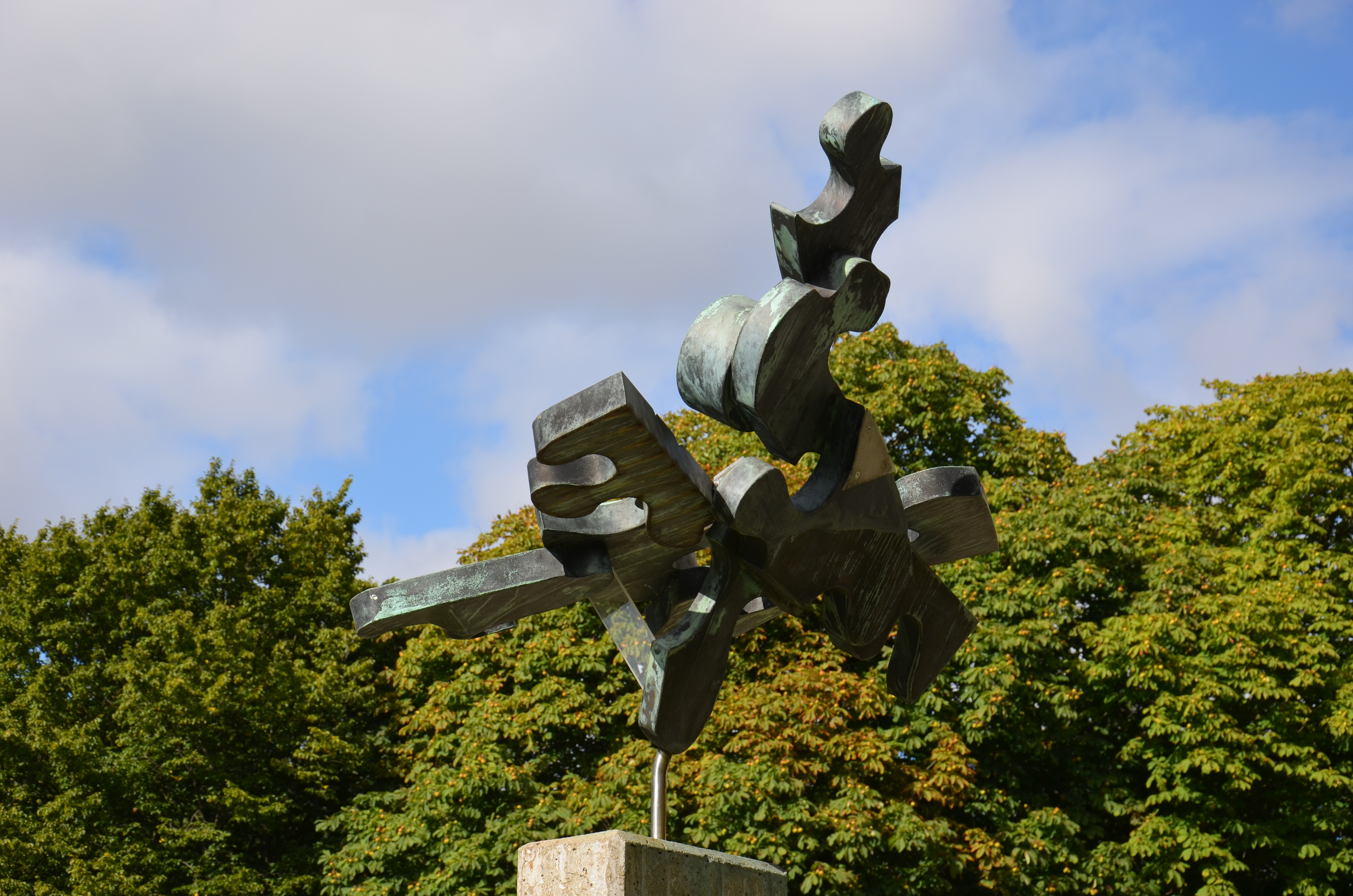 Martin Holmgrens Skapland, brons, utanför Ulrikedal i Lund